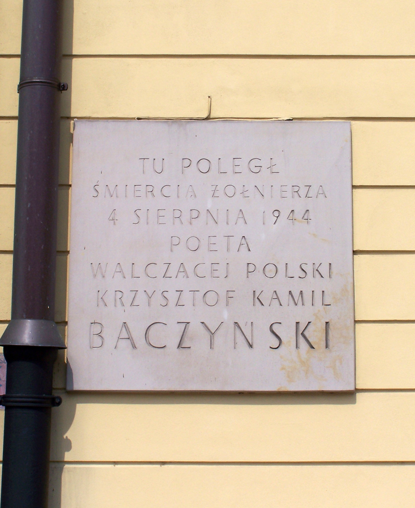 Memorial plaque at the place, where Krzysztof Kamil Baczyński died during the Warsaw Uprising, in Warsaw, Poland